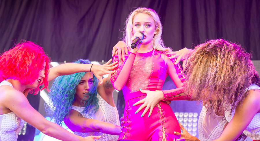 Zara Larsson at the minor stage during Stavernfestivalen in Stavern on 08. July 2016. Lineup:Zara Larsson (vocal)